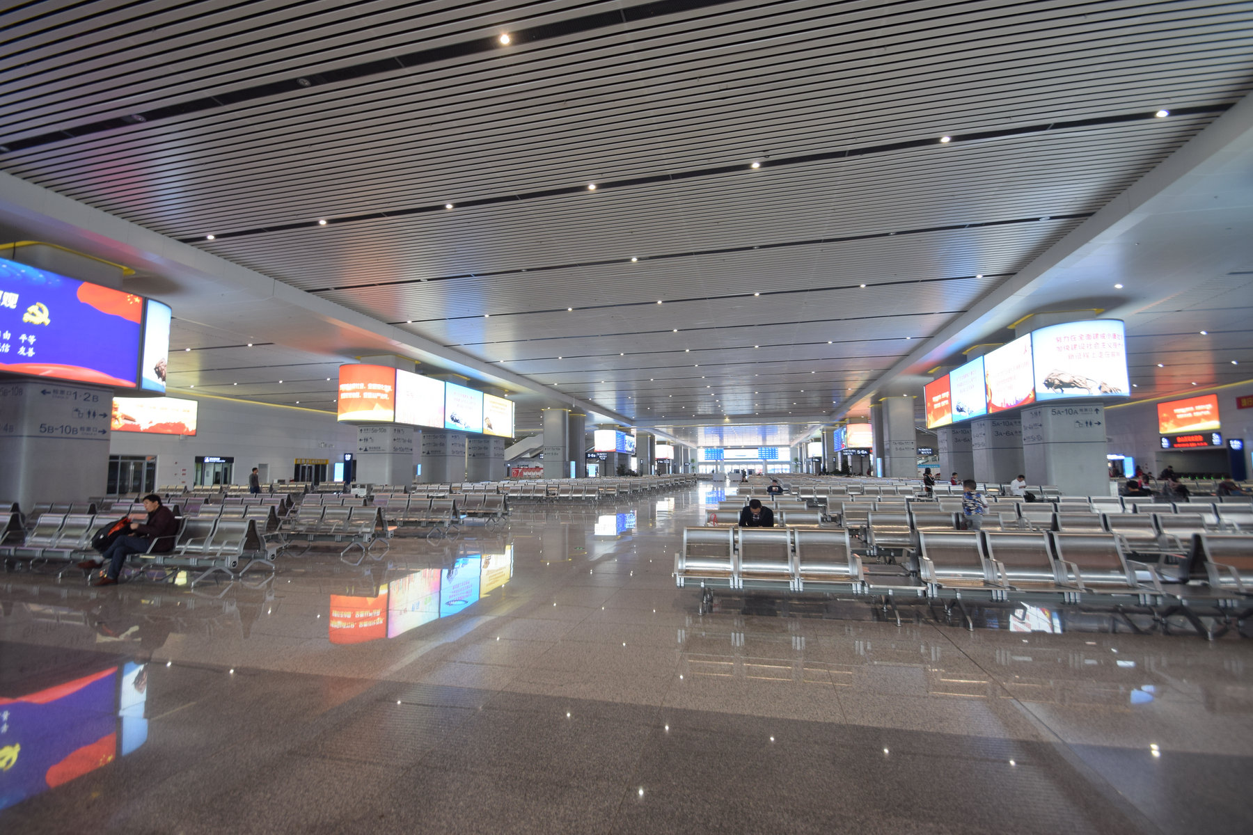 Concourse of Foshan Xi (West) Railway Station